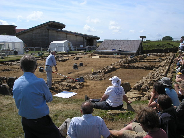 Brading Roman villa excavation of north wing Excavation in August 2008 of the Aisled Hall, which forms north wing of the Roman villa at Brading. The area was originally excavated in the 19th century.